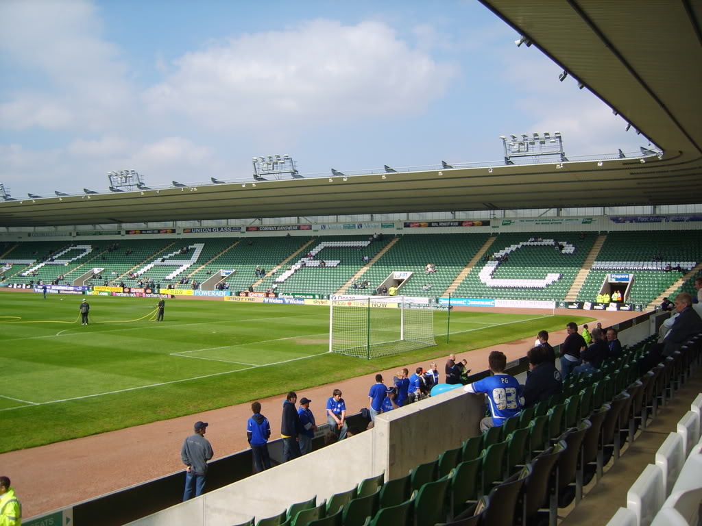 Home Park 2007